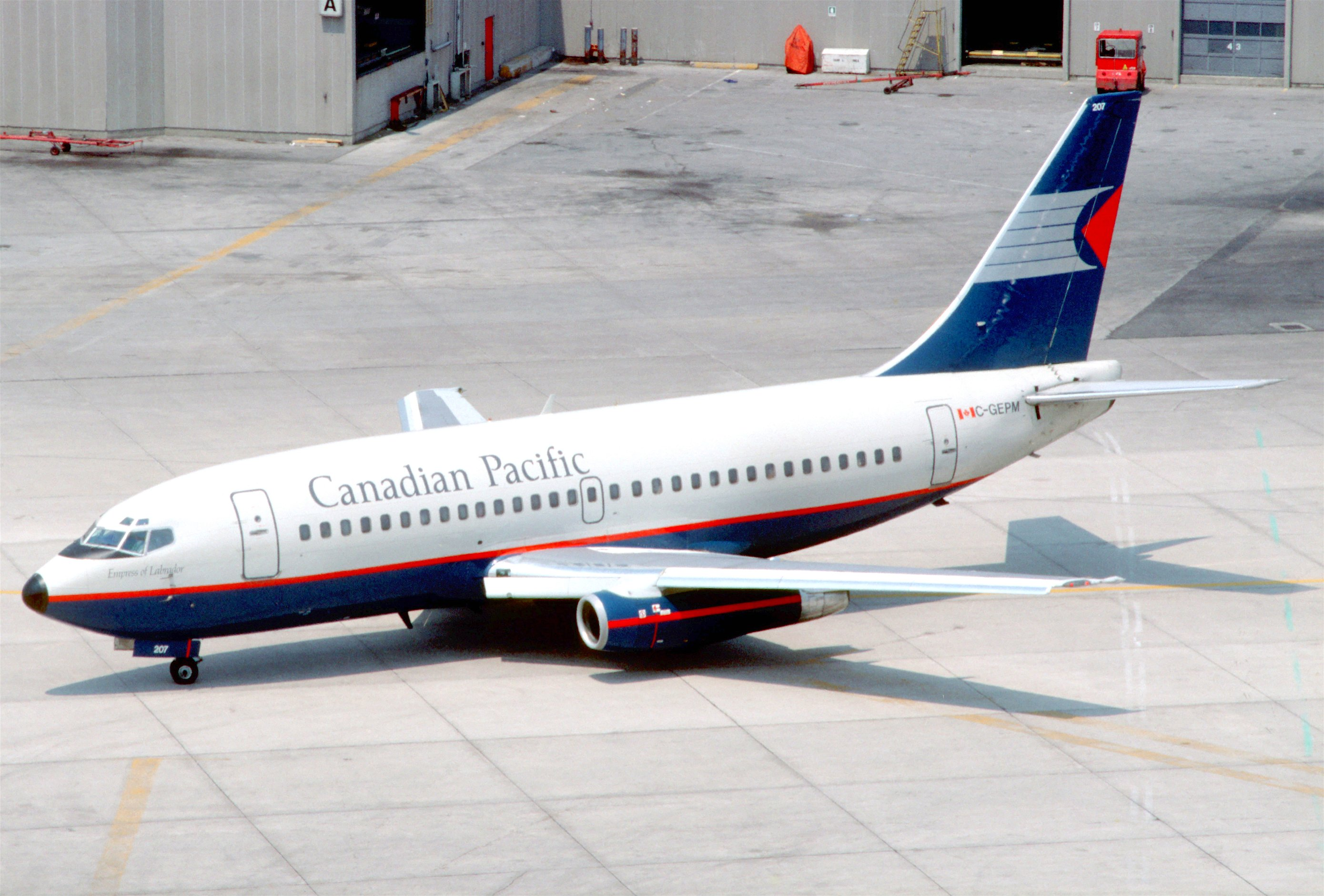 This Boeinh 737-200 took its first flight on December 23, 1980... 12/01/1981 Orion Airways G-BHVG 01/03/1985 Eastern Provincial Airways C-GEPM 12/01/1986 CP Air C-GEPM 26/04/1987 Canadian Airlines C-GEPM 10/05/1989 Malaysia Airlines 9M-MBO 01/06/1990 Solomon Airlines H4-SAL 24/06/1992 Nica N501NG 20/10/2004 Phoenix Aviation EX-048 01/11/2005 Kam Air EX-048 28/07/2006 A6-PHD